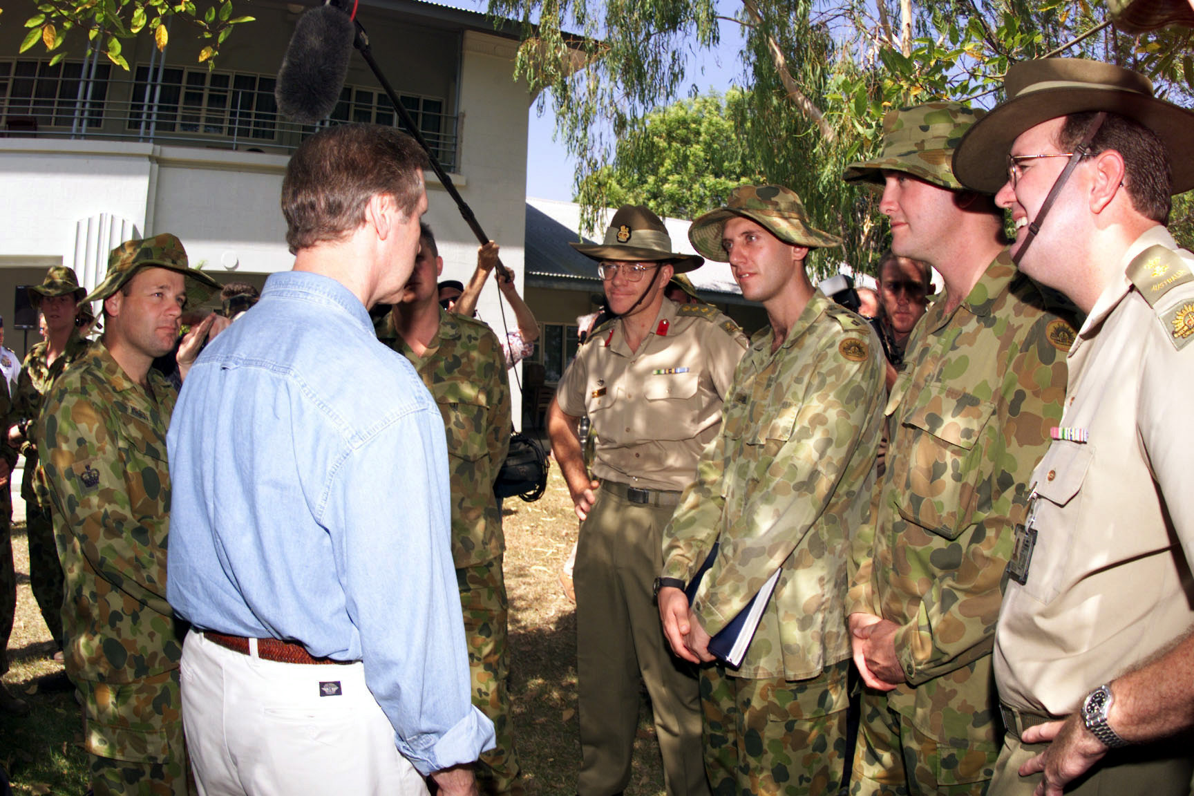 Secretary of Defense William S. Cohen (left) meets members of the Australian military in Darwin, Australia, on Sept. 29, 1999, as they prepare to deploy as part of the multinational peacekeeping forces in East Timor, Indonesia. Cohen is in Darwin to meet with his counterparts and members of the peacekeeping force which includes personnel from the U.S. Army, Marines and Air Force.